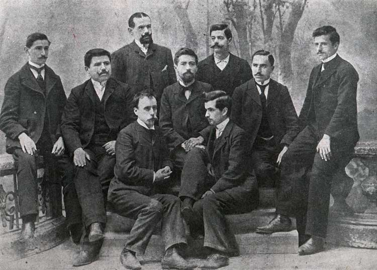 Constantinople IMARO Committee